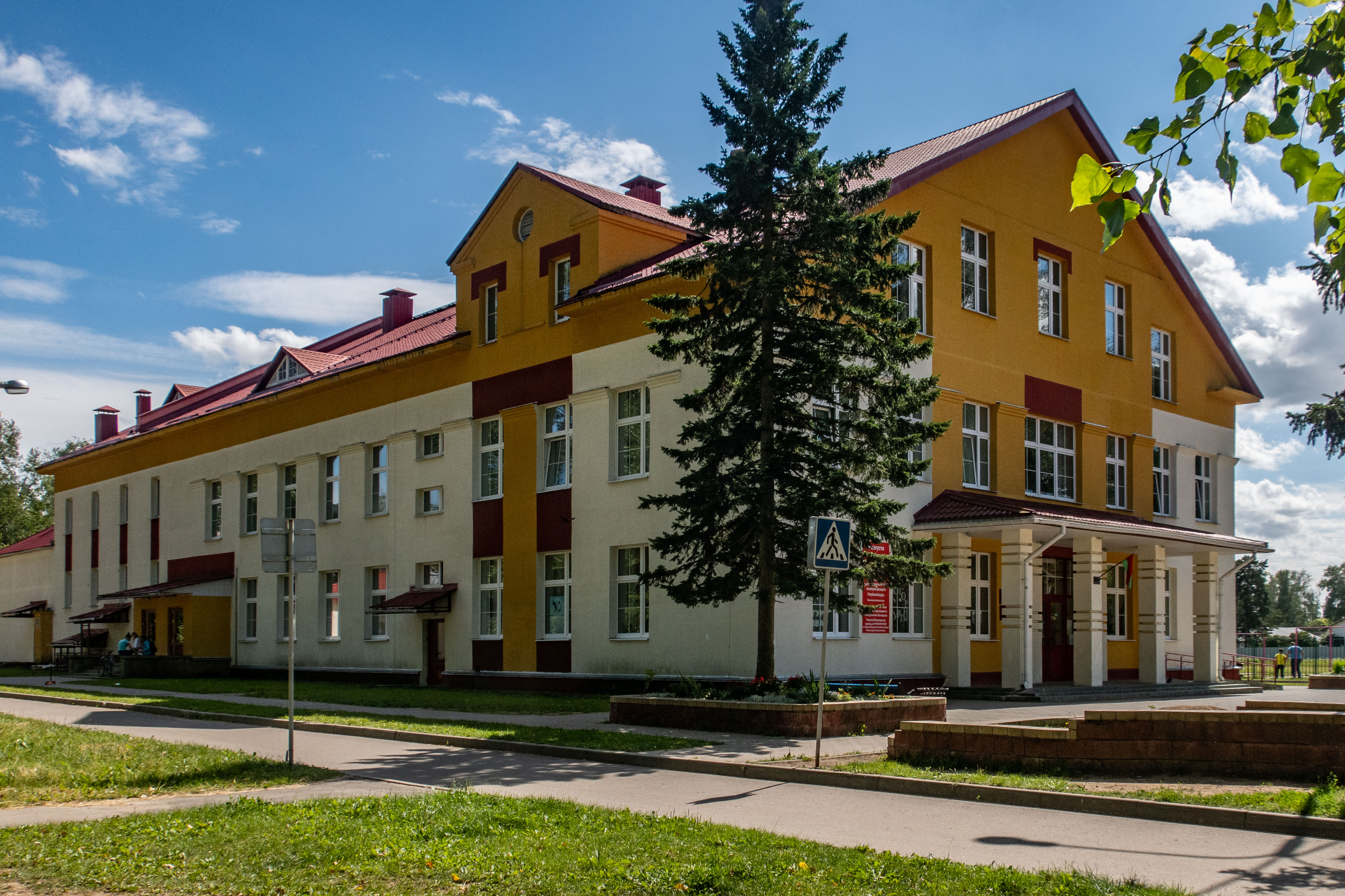 Mačuliščy (Machulishchi). Minsk district, Belarus